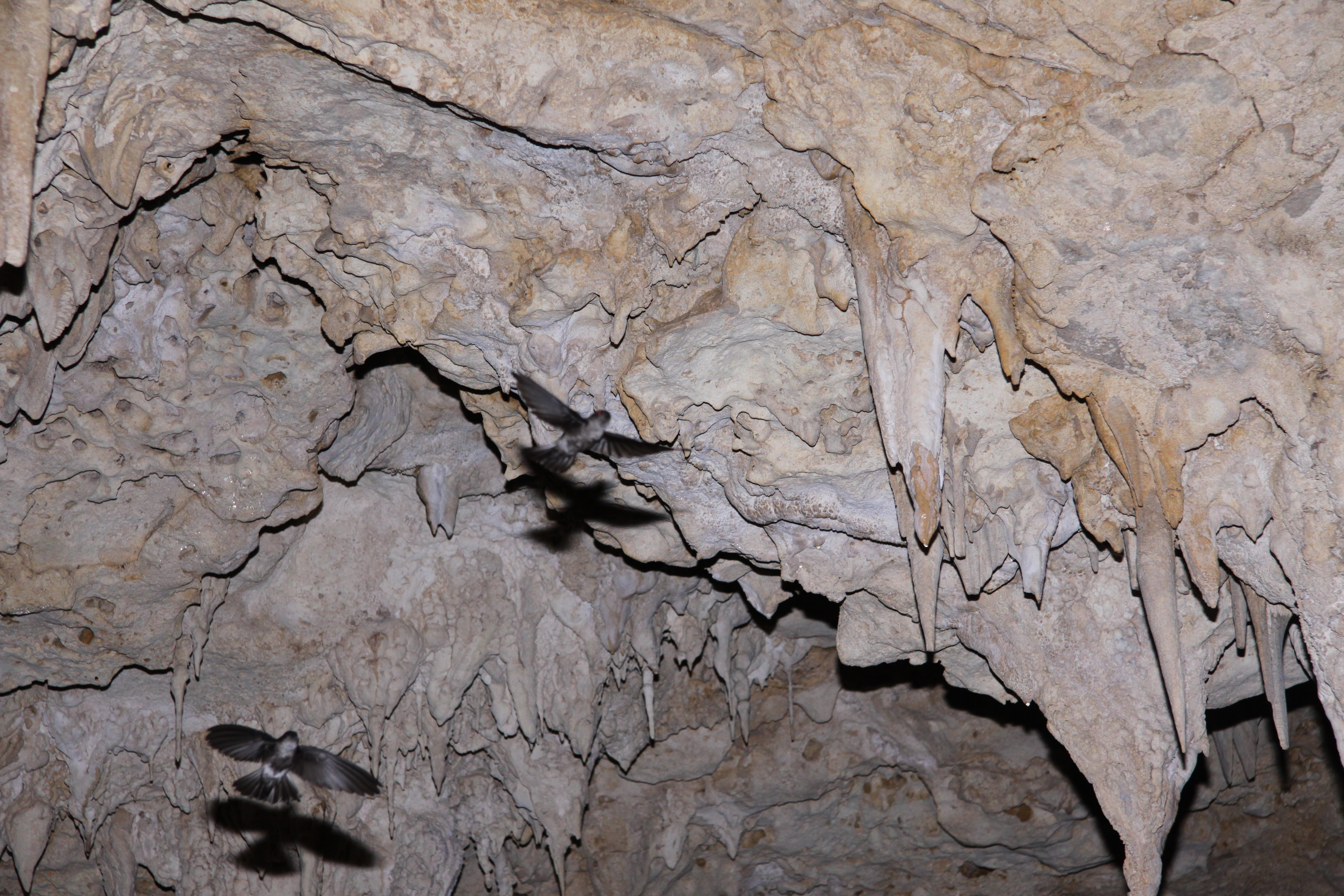 Kopeka birds navigate in the dark using sonar.